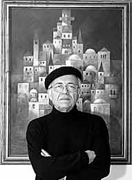 Ibrahim Hazimeh at his showroom "Kunst für den Frieden" in Berlin-Steglitz at January 15, 2003